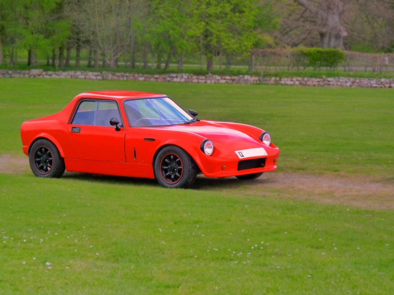 A 1985 GTM coupe taken from the side